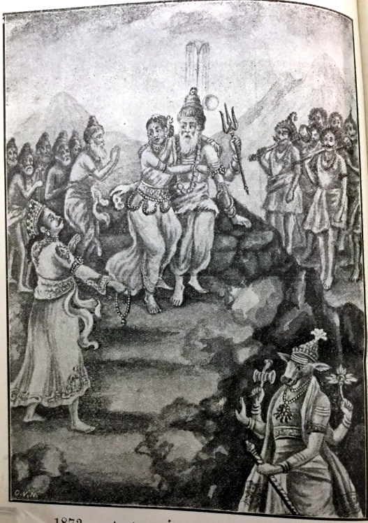 THESE ARE FROM A 100 YEAR OLD BOOK